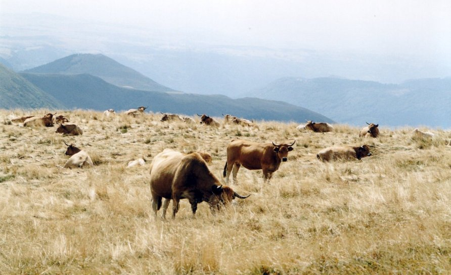 Aubrac cows on the Plomb du Cantal